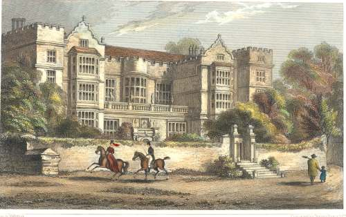 Fountains Hall from A New And Complete History of the County of York by Thomas Allen (1830).